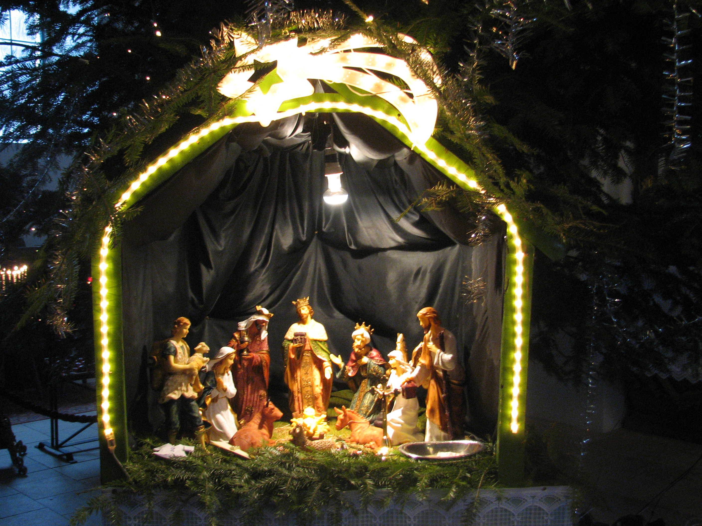 The small Bethlehem scene under the Christmas tree in the Greek Catholic Cathedral of Hajdúdorog, Hungary. According to the tradition during the Christmas season (from 24th of December to 6th of January) the scene of Jesus' birth with china characters is displayed in front of the cathedral's iconostase, on the Northern side of the church. In the middle you can see the child Jesus and Mary; the three kings behind them, a shepherd on both sides and an angel on the right.